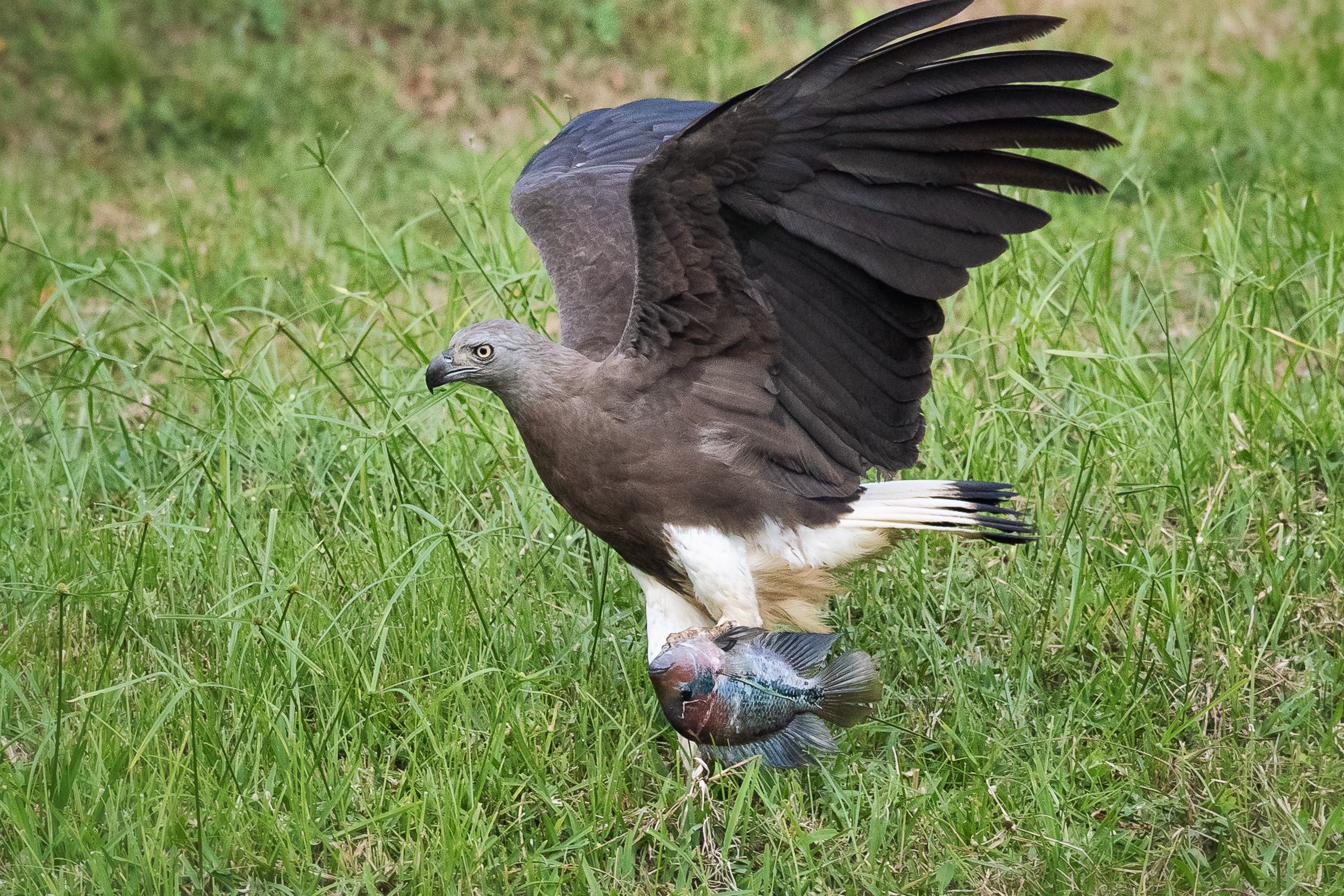 A grey-headed fish eagle with a tilapia fish snatched from a nearby river. Singapore